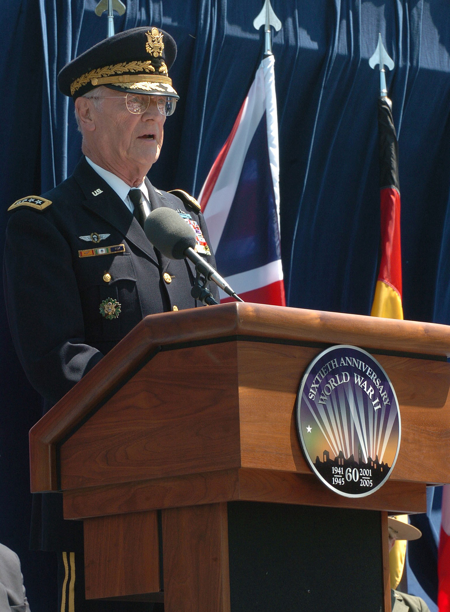 Retired General Frederick James Kroesen, Jr. in 2005.